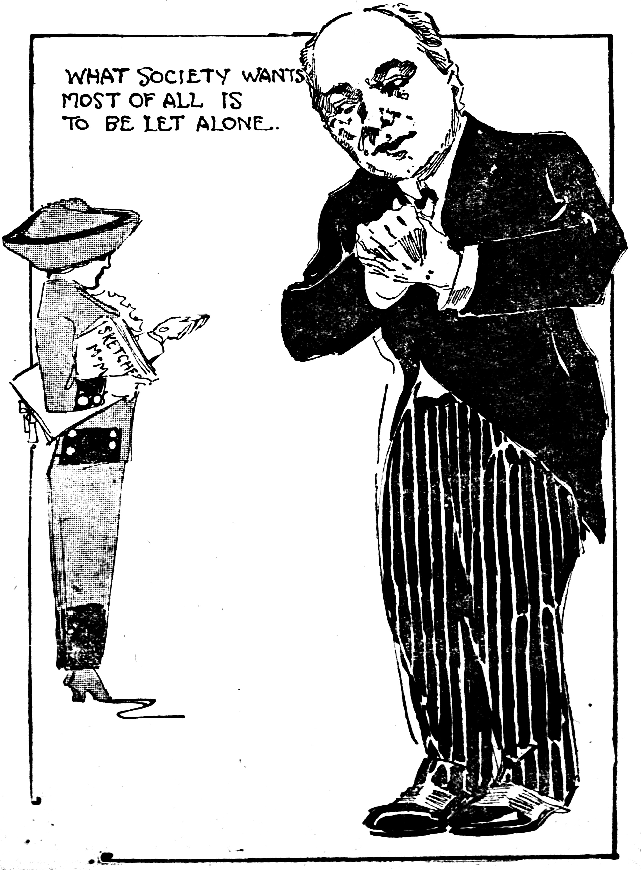 Sketch by Marguerite Martyn of her interviewing Theophile Papin of St. Louis, MIssouri, with a caption of Papin saying "What Society wants most of all is to be let alone." Sketch shows both Martyn and Papin.